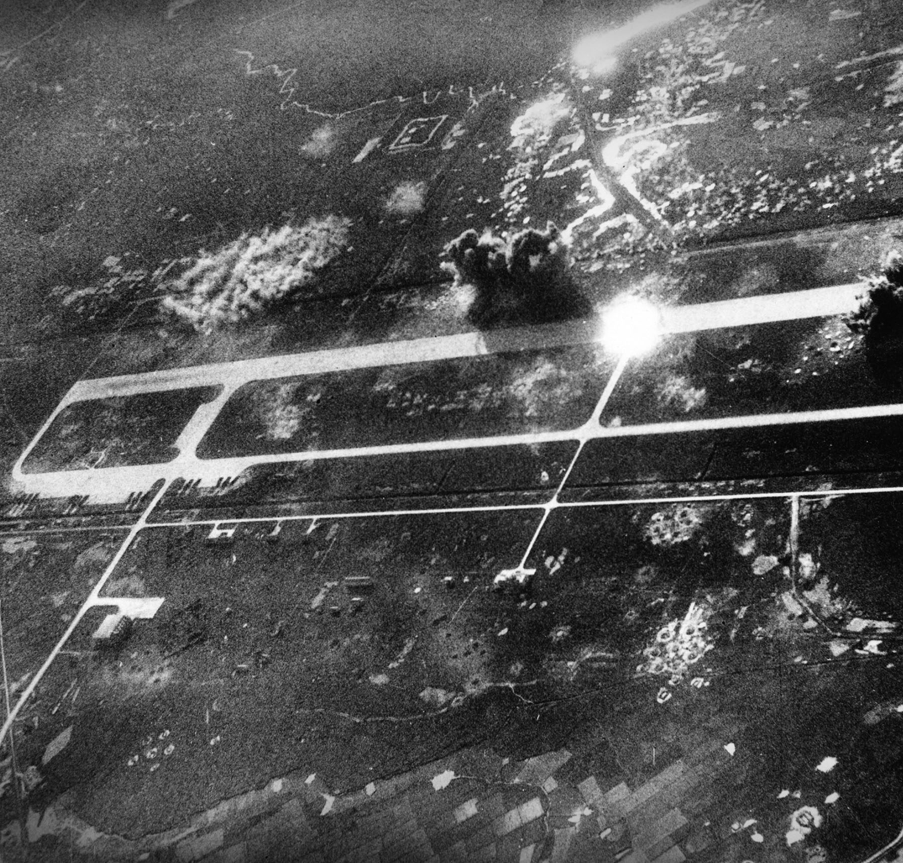 US bombs hit Phus Yen airfield northwest of Hanoi